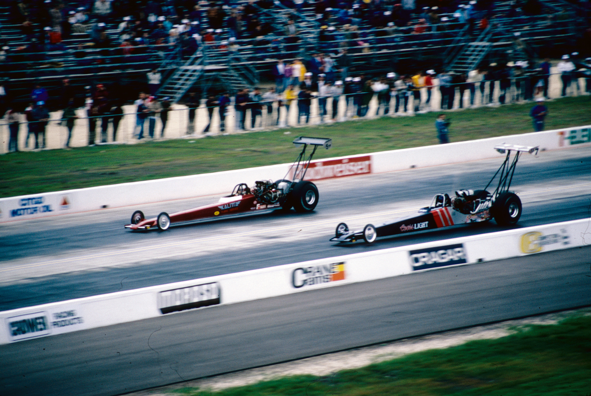 a drag race between Connie Kalitta and Dan Pastorini (former Houston Oilers quarterback), Texas Motorplex, April 1987Connie Kalitta vs. Dan Pastorini